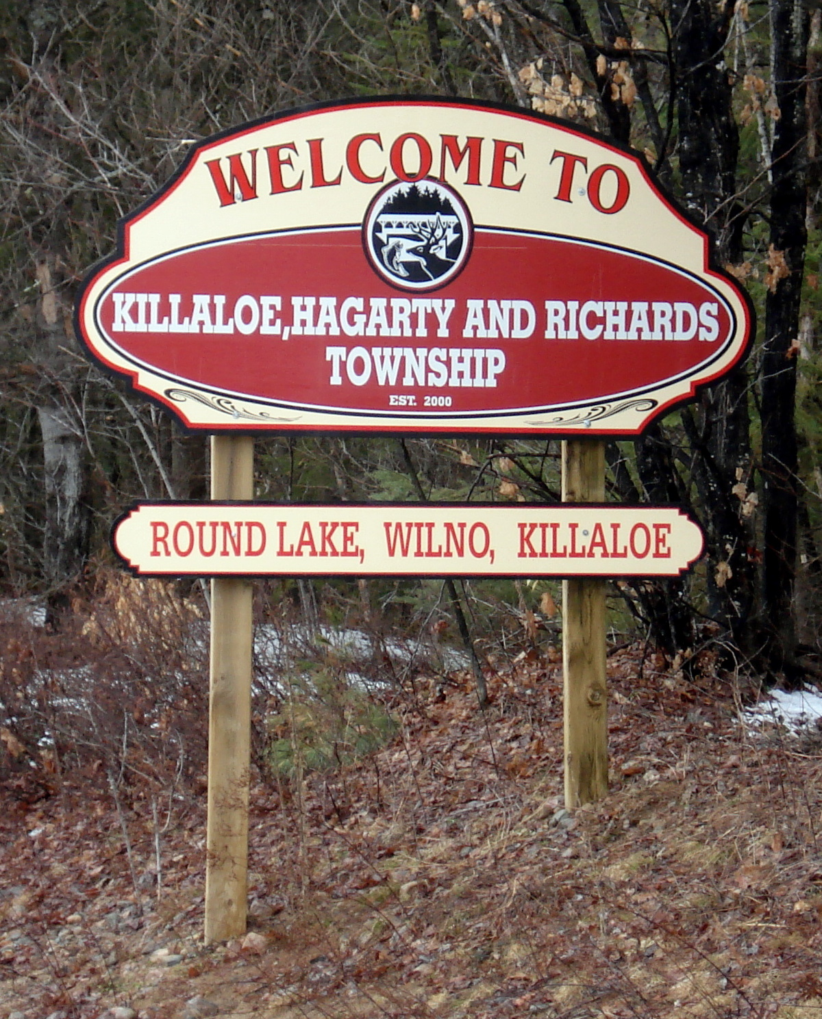 Sign on Round Lake Road welcoming drivers to the township of Killaloe, Hagarty & Richards in Ontario, Canada.